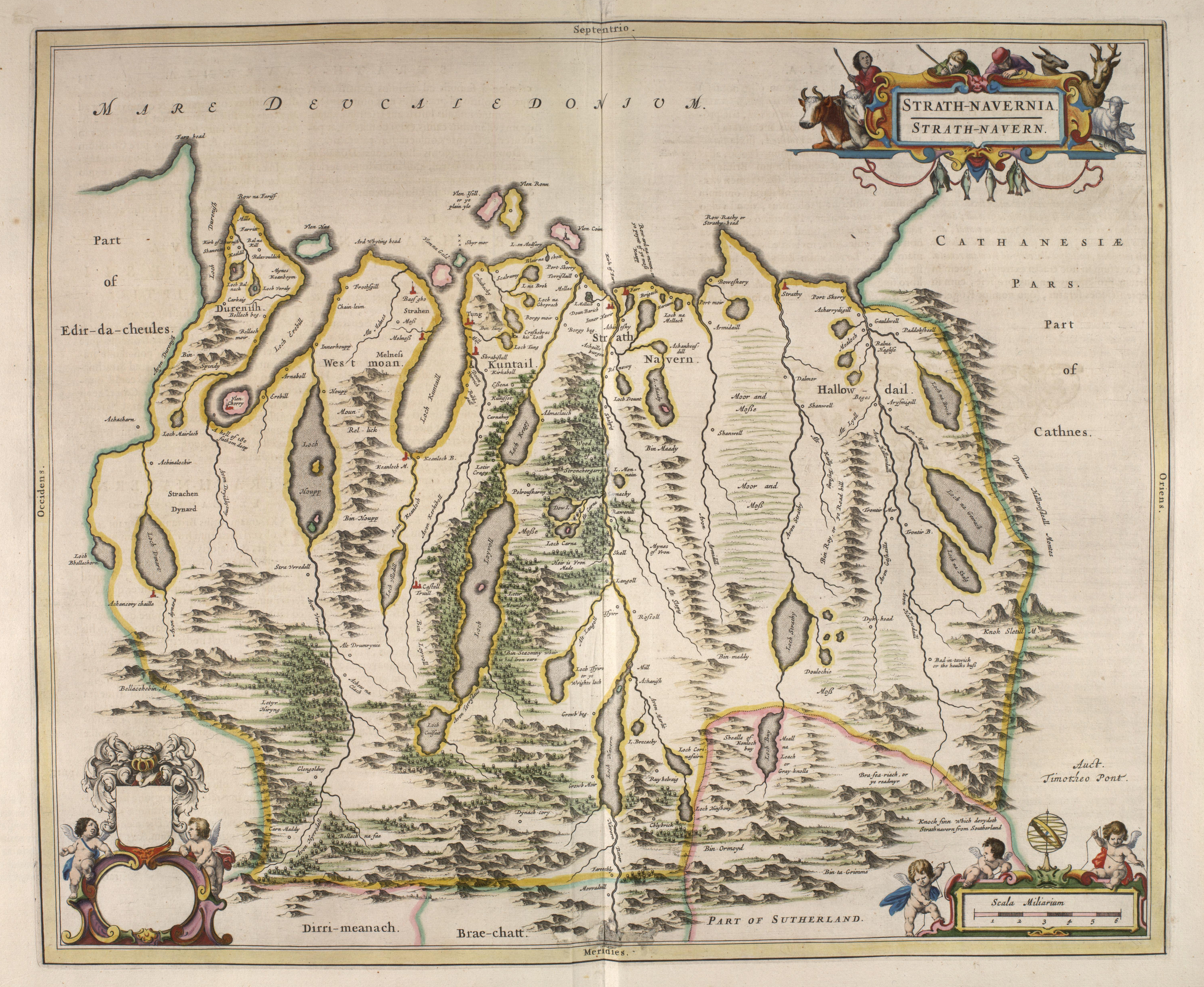 STRATH-NAVERNIA - Strath Naver and Strathmore